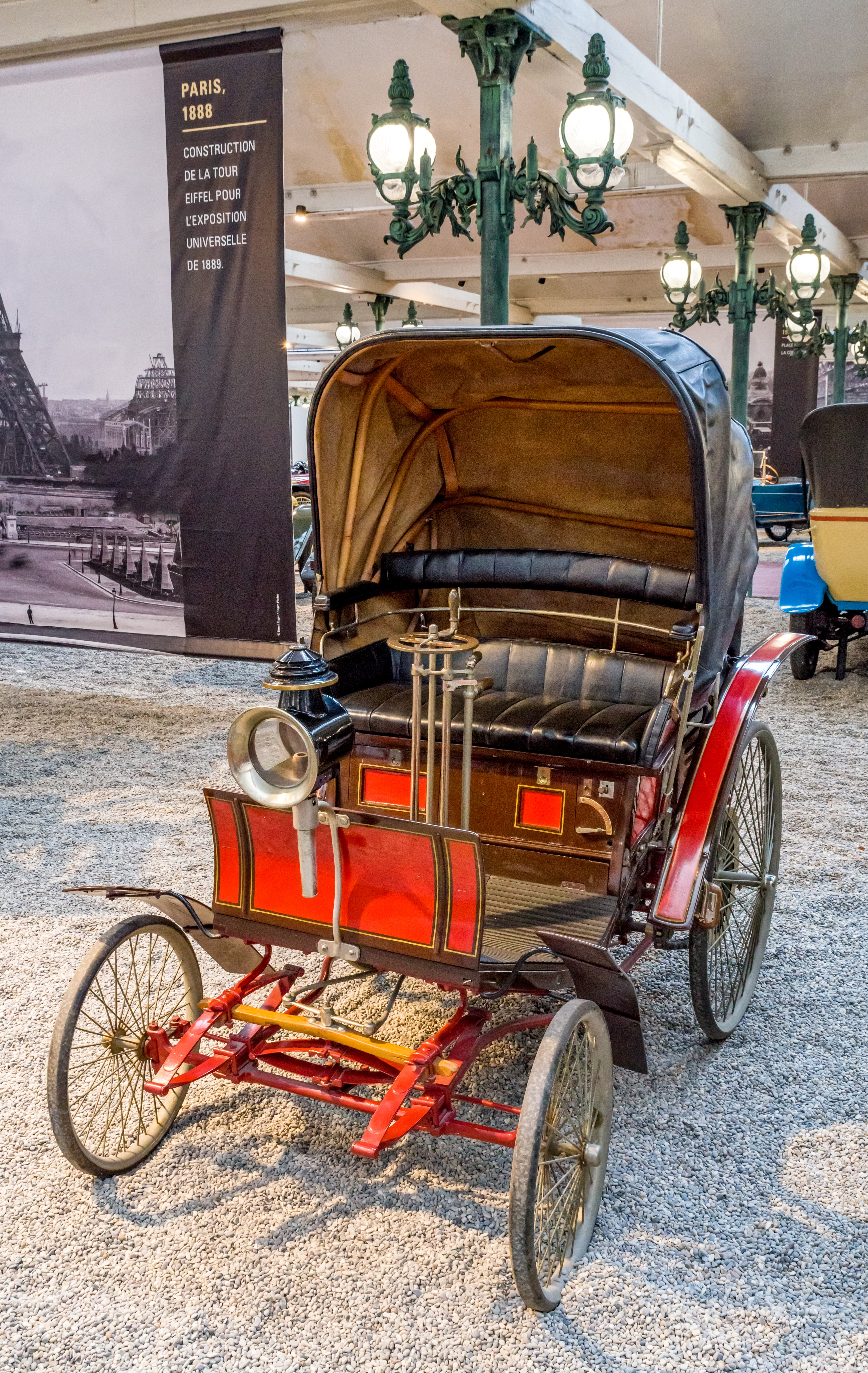 pictures from the Cité de l’Automobile – Musée National – Collection Schlump in Mulhouse, France ptictures from the 10. may 2018